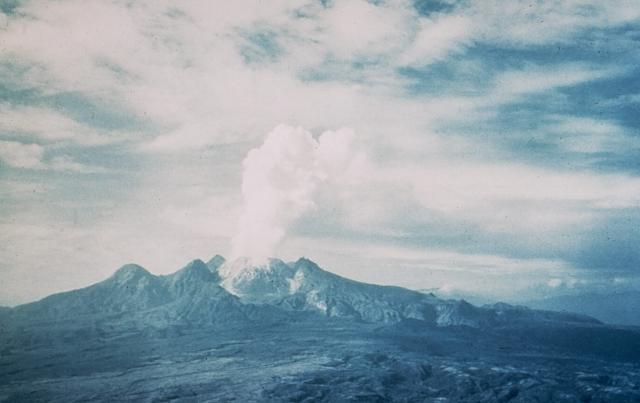 Mount Lamington, New Guinea, seen here in eruption from the north in late 1951